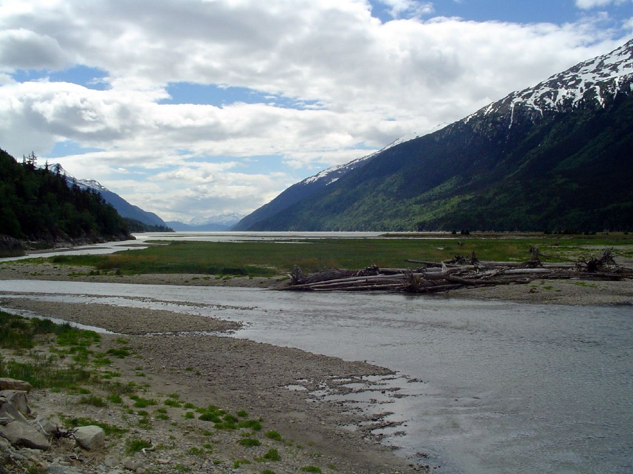 The town of Dyea once stood on this spot.